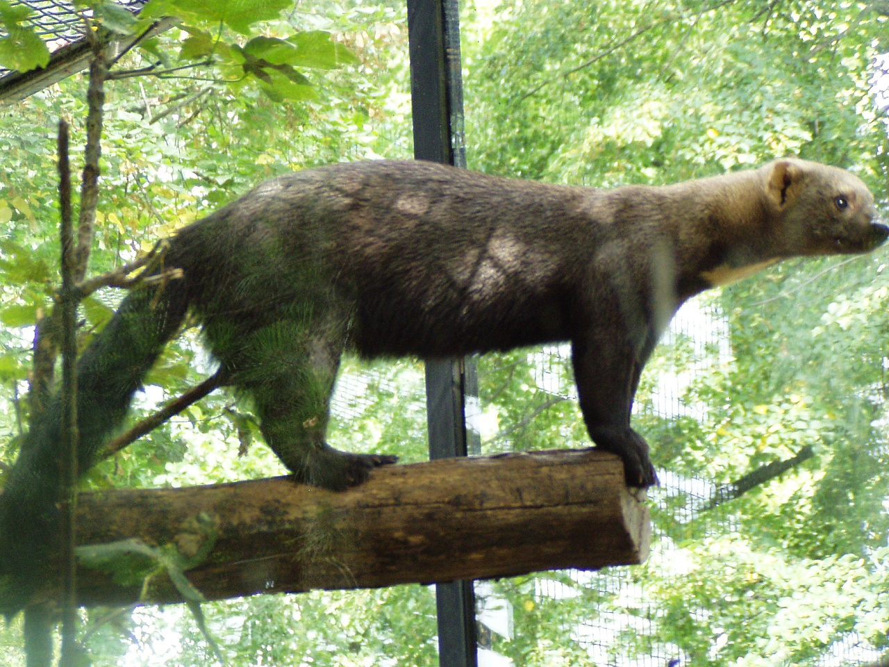 Eira barbara (Prague Zoo)